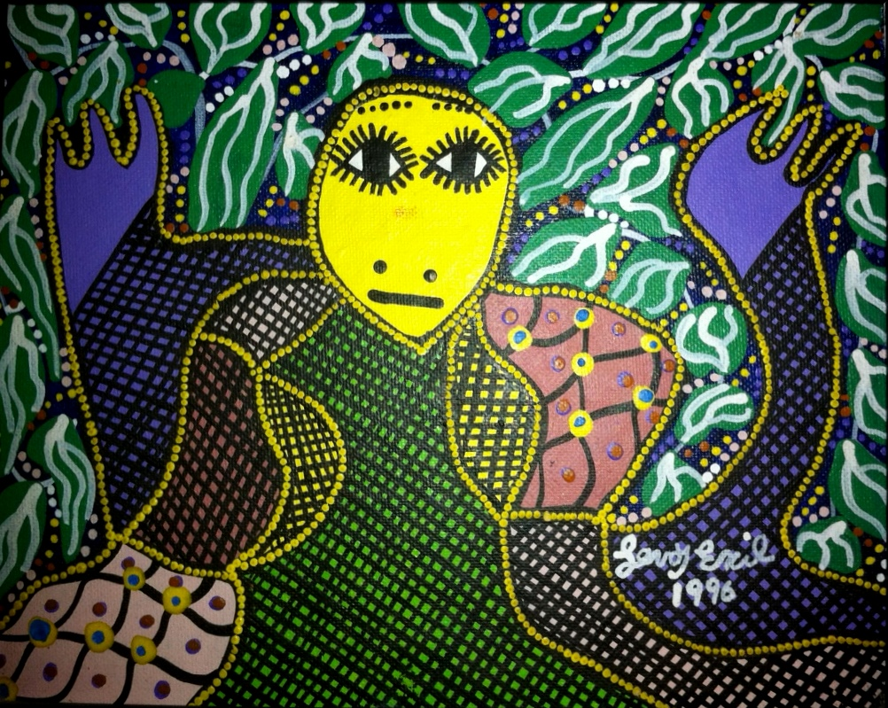 A 1996 8x10 painting of a Yellow Loa by Haitian painter Levoy Exil. Acrylic on Board